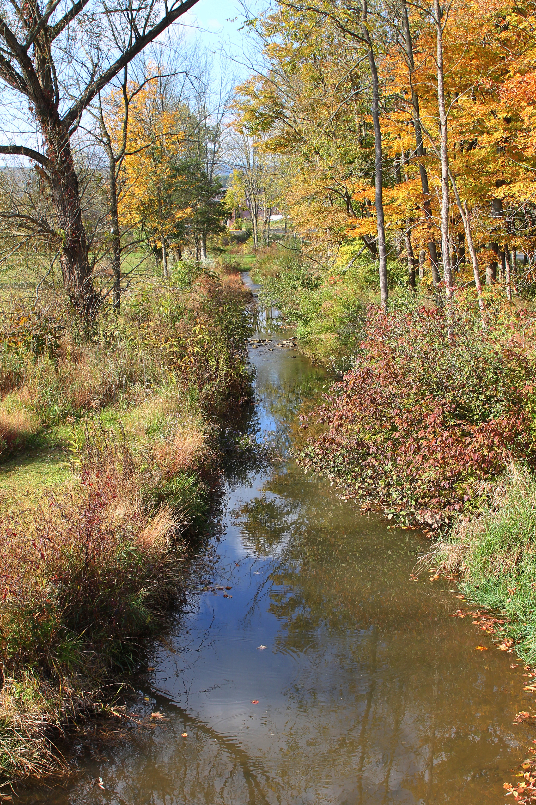 Black Run